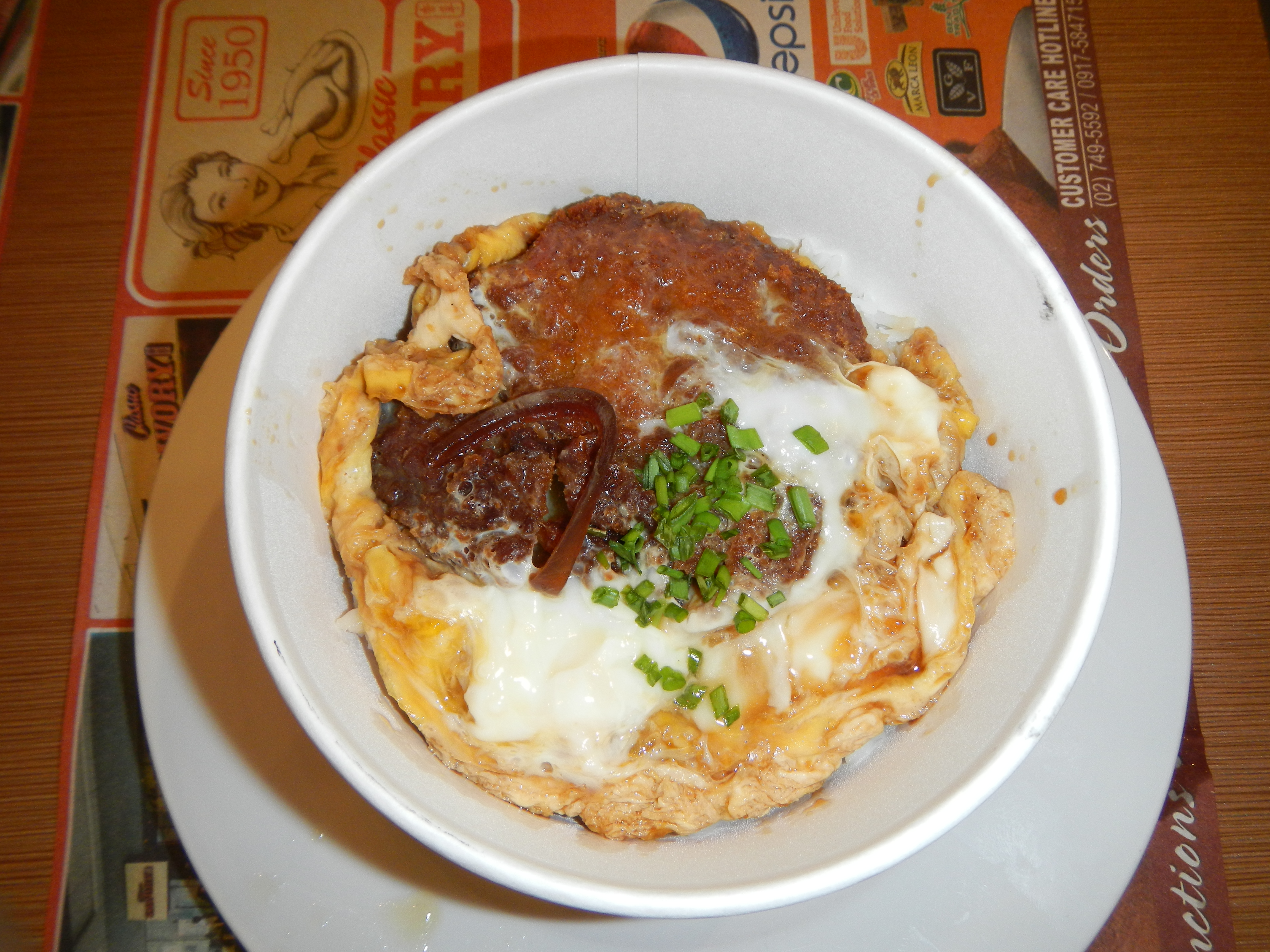 Pork Sukiyakidon, Donburi, Tokyo Tokyo Restaurant, SM City Baliuag